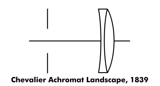 AchromatLandscape1